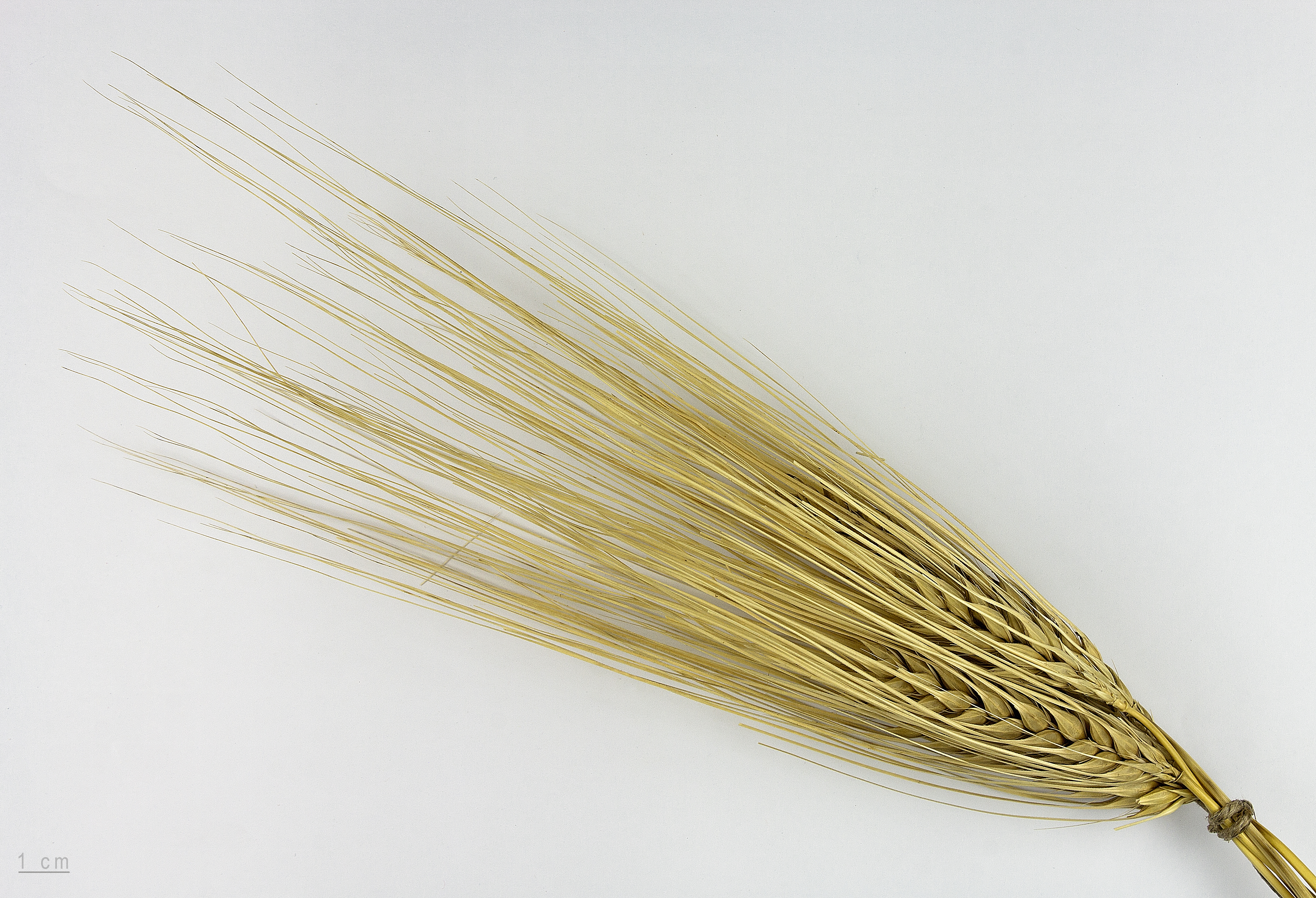 Hordeum vulgare subsp. hexastichum, seeds